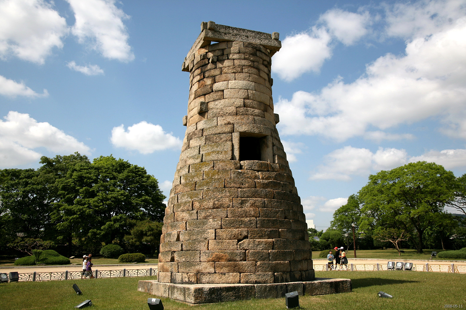 A view of Cheomseongdae, Gyeongju, North Gyeongsang province, South Korea